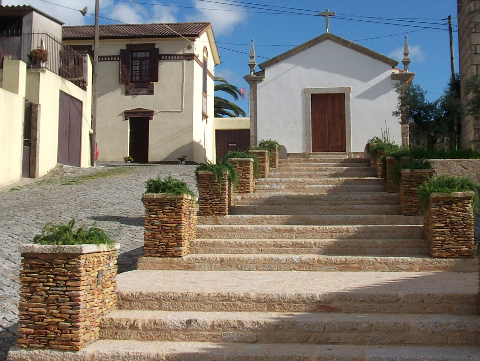 Divino Salvador Chapel around Praça do Cruzeiro Square, Terroso, Póvoa de Varzim, Portugal